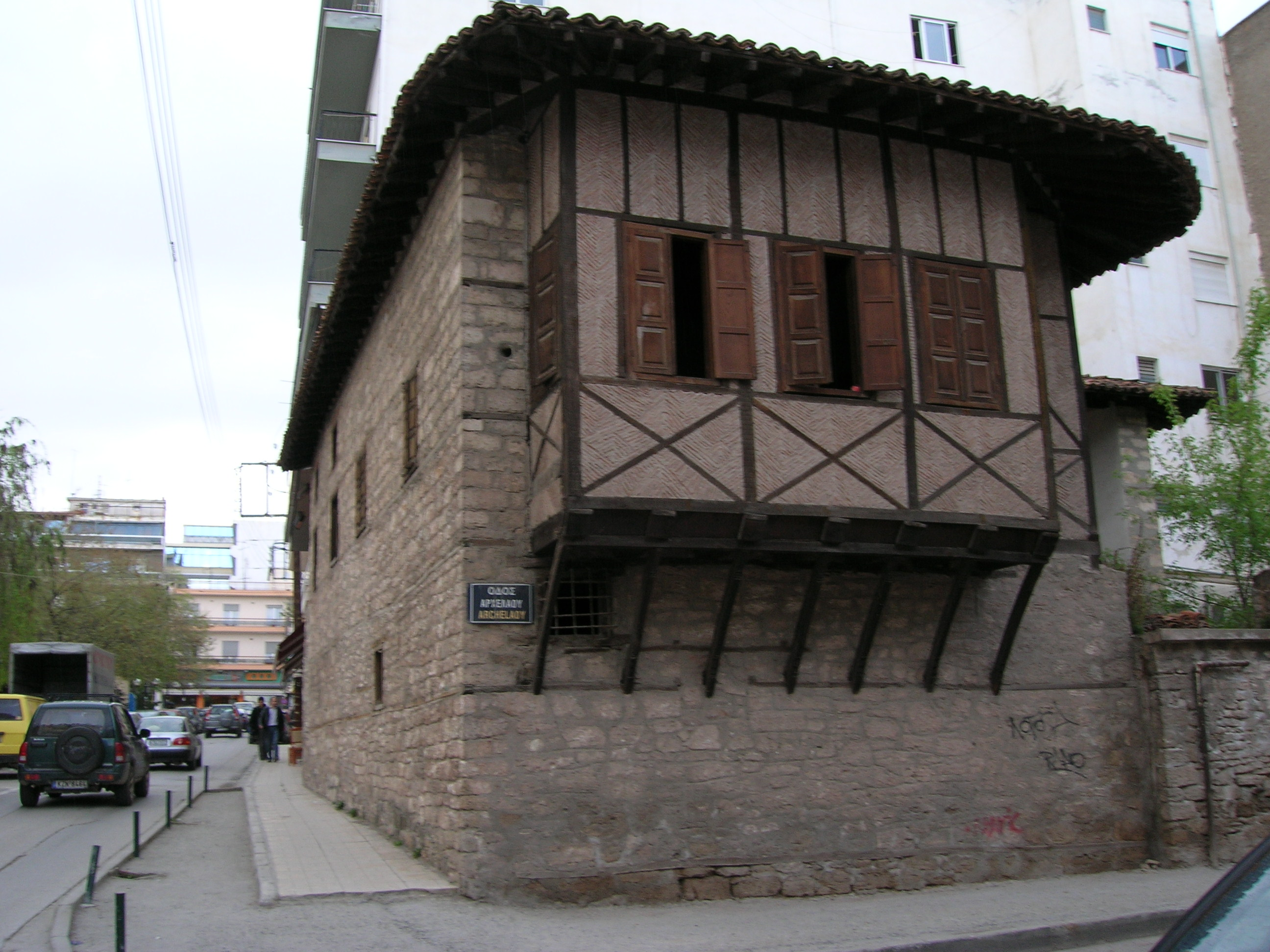 Villa Lassani in Kozani, Greece